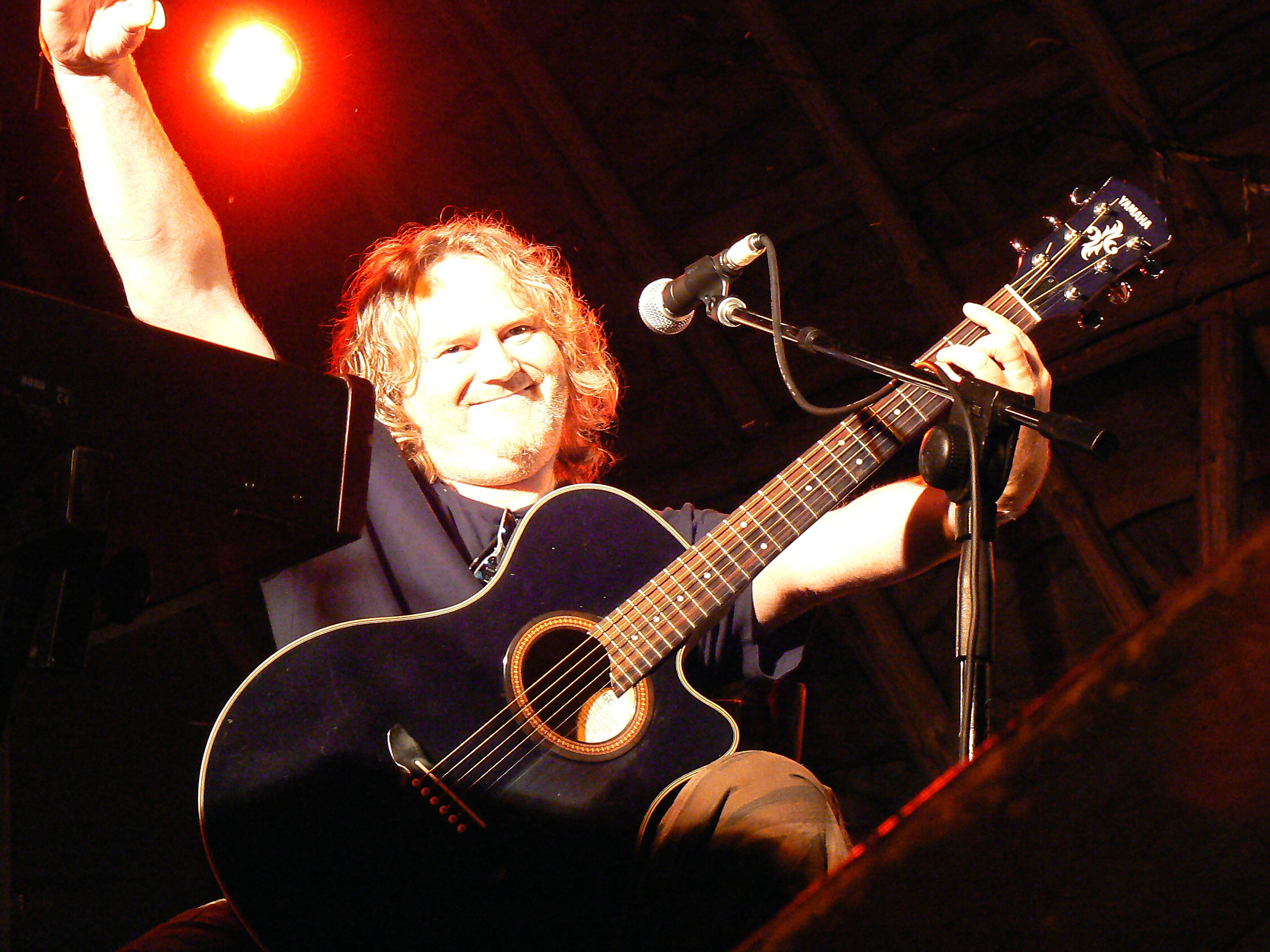 Nick Barrett (Pendragon) performing an accoustic program with Clive Nolan at "Baltic Prog Fest 2008" in Kernavė, Lithuania.